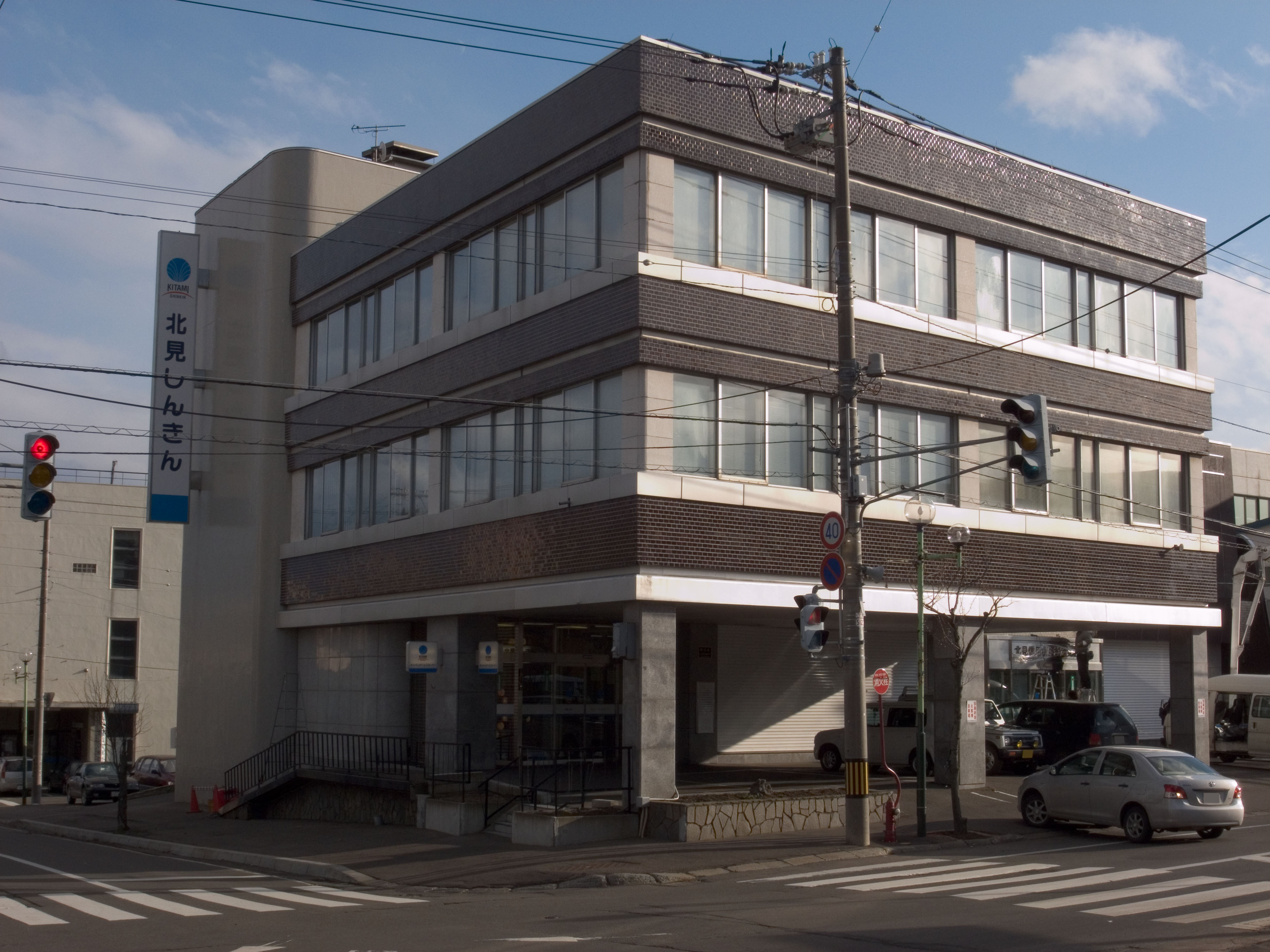 Mombetsu branch of Kitami Shinkin Bank, Mombetsu, Hokkaido, Japan